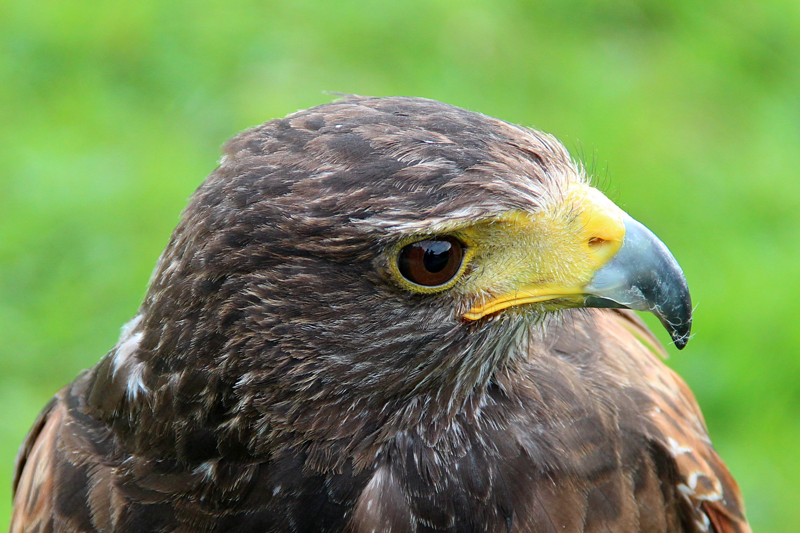 Harris's Hawk